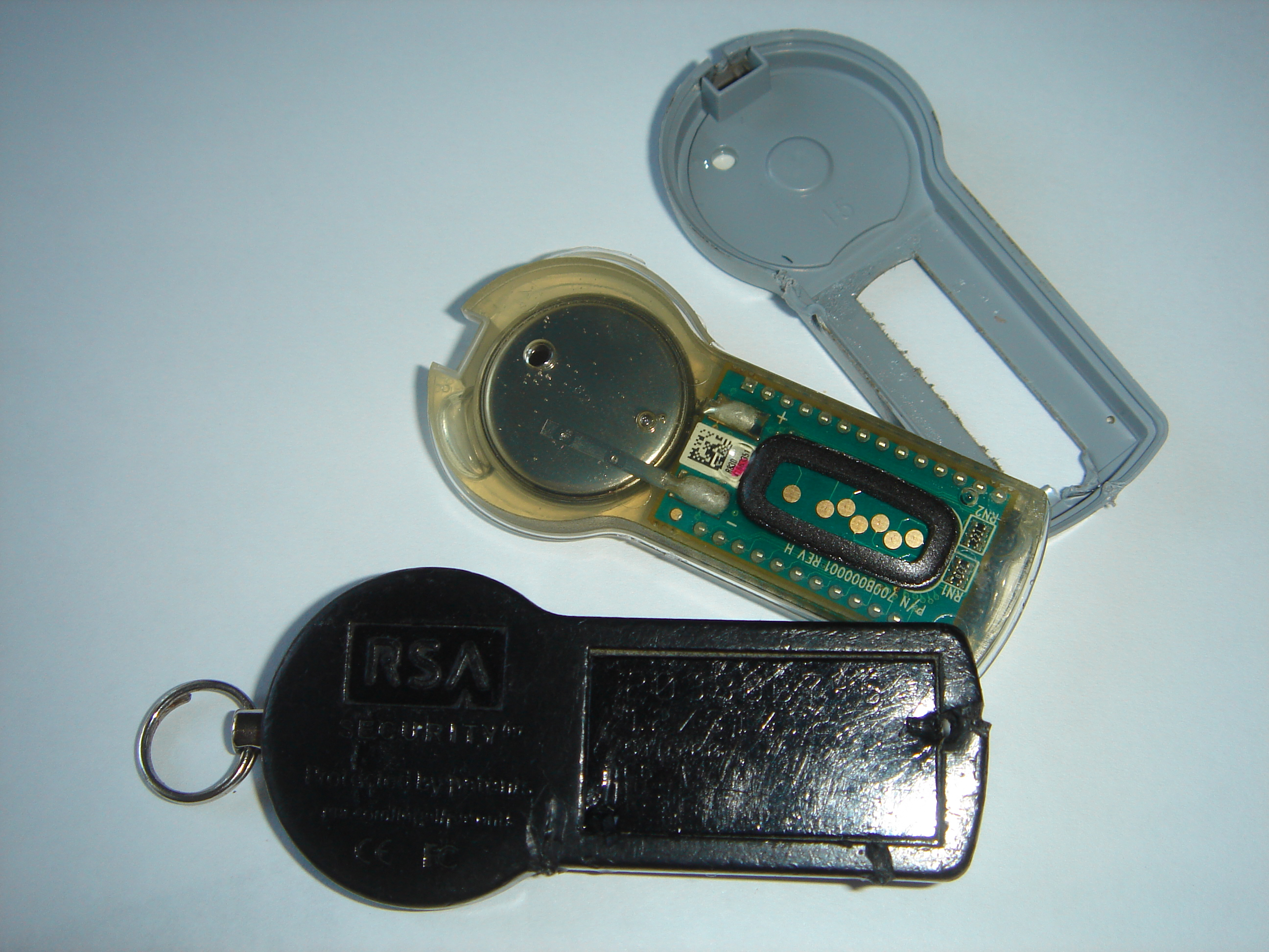 An RSA SecurID SID800 token without USB connector, components (2/2)